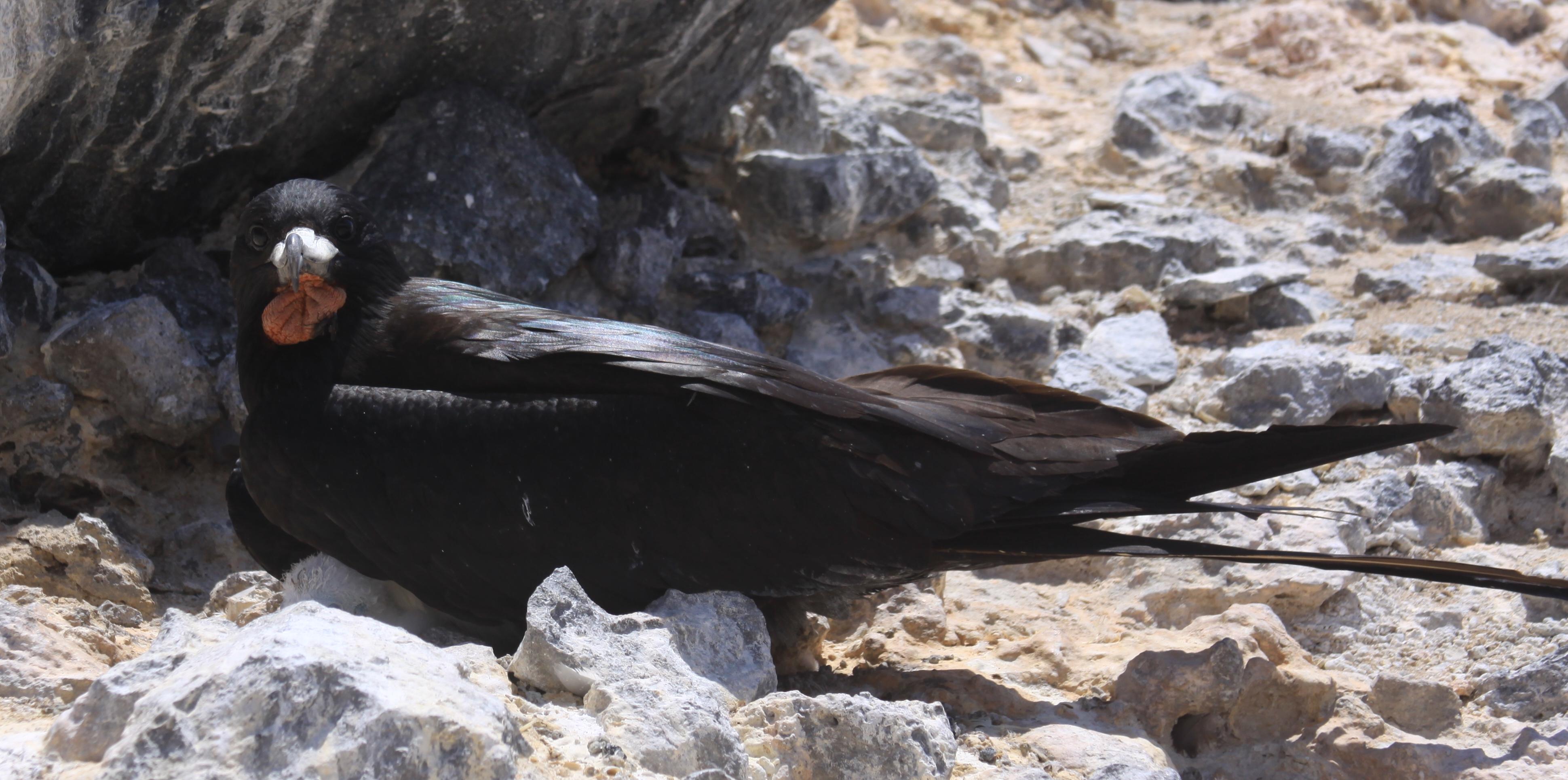 Taken on an RSPB funded expedition to BoatswainBird Island